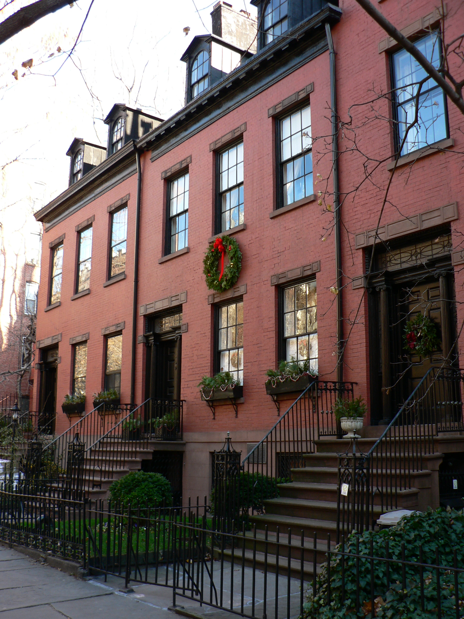 155–159 Willow Street - three original early 19th century Federal-style houses